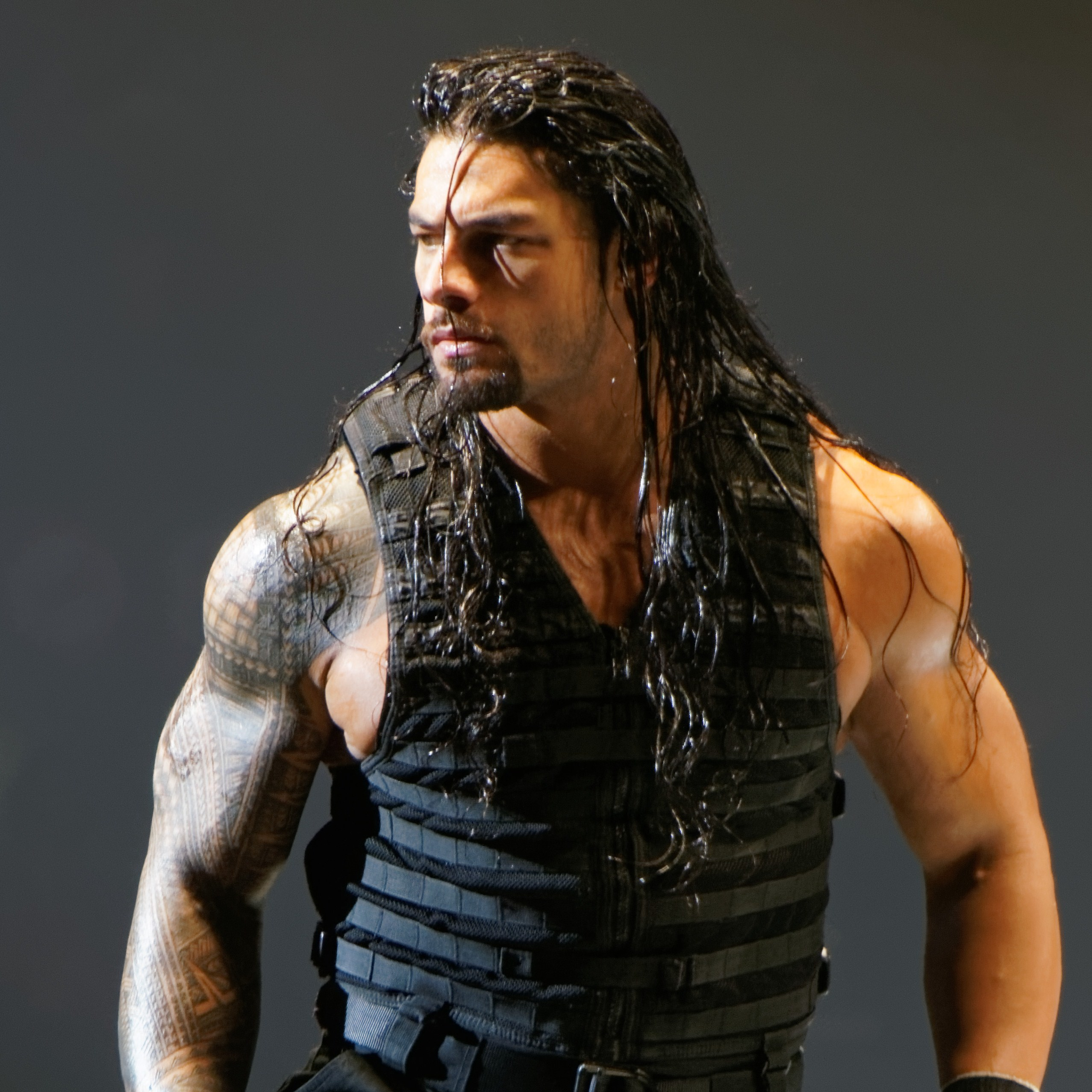 Roman Reigns at a WWE show on November 8, 2013.